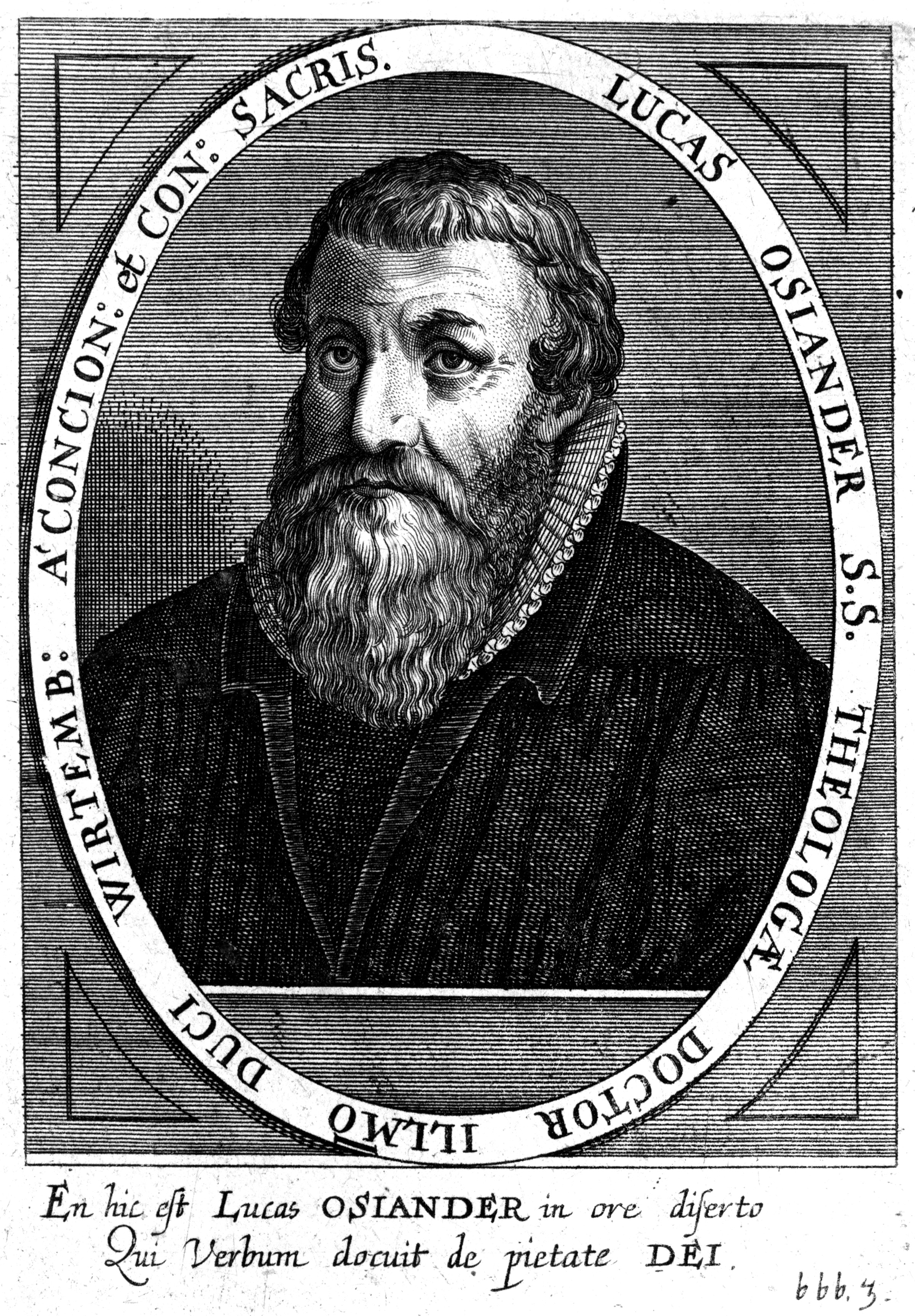 Portrait of Osiander Lucas